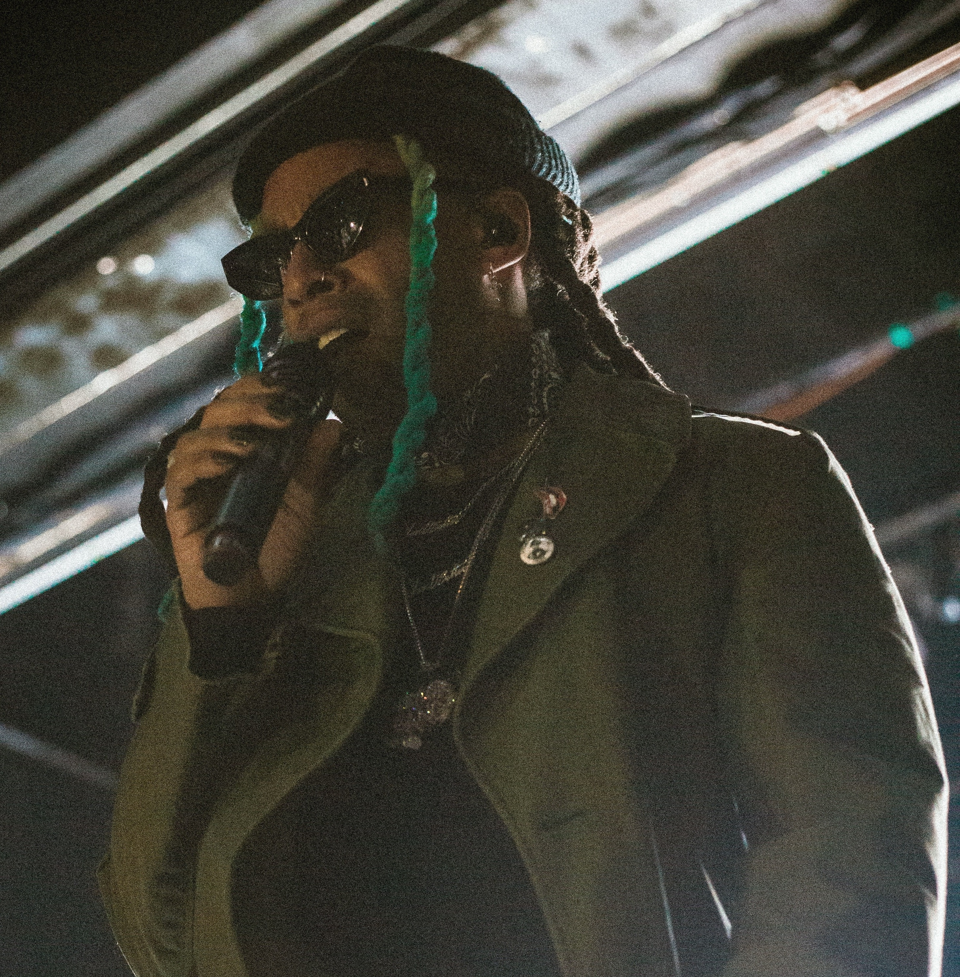 Ty Dolla Sign in March 2018